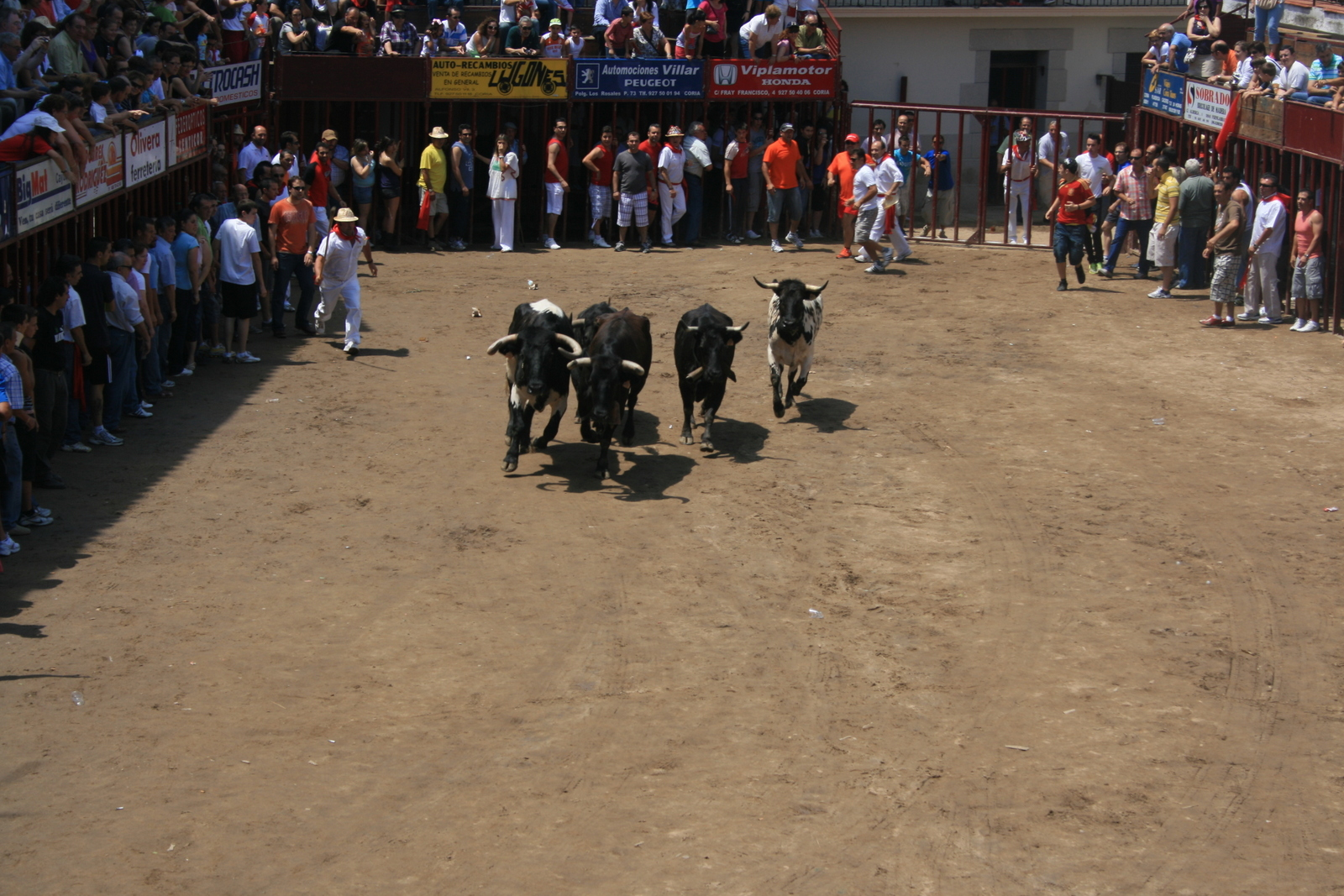 Coria bull-running square. Public square with multilevel seating around all four sides. In the centre of the square are four bulls, coming this way.